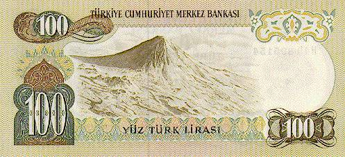 100 TL